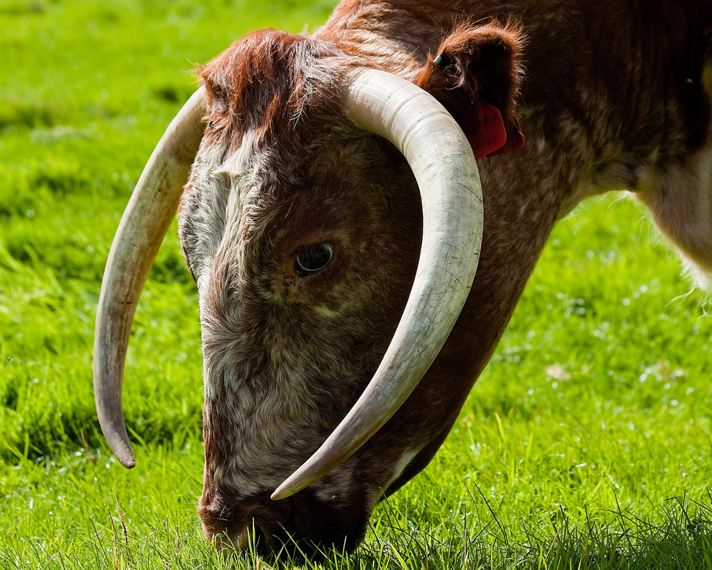 Close-up of an English Longhorn cow.